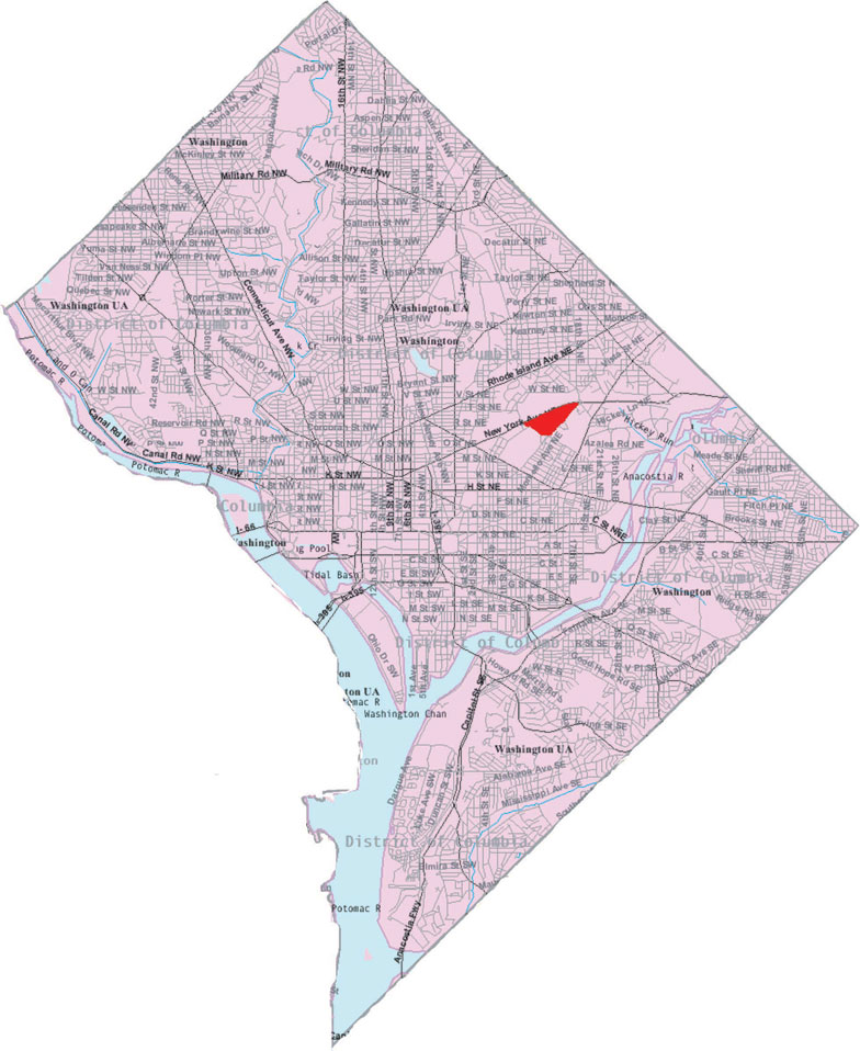 This image is a modified version of a self-generated reference map from the U.S. Census Bureau's American Factfinder at by Wikipedia user Msclguru.